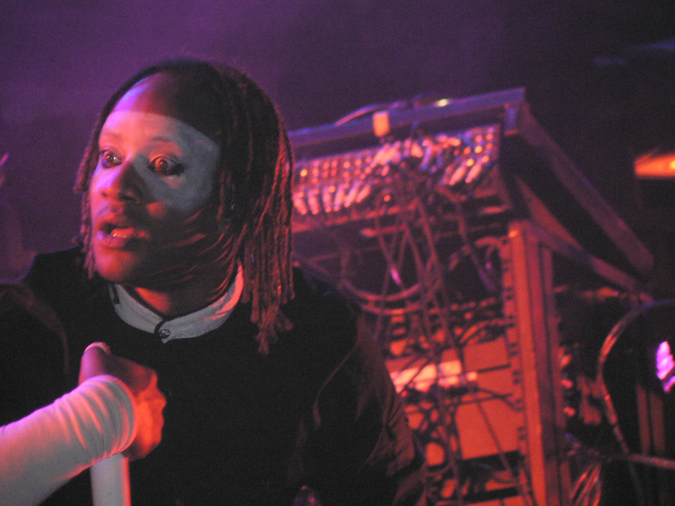 Live on the 15h of August, 2006 . Budapest, Sziget Festival. Grand Stage – Prodigy ©© Published under Creative Commons in the Metapolisz DVD line. All of the photos and vids in the Metapolisz DVD line are under Creative Commons and can be used even for commercial – for profit – purposes. Recommended Citation Derzsi Elekes Andor: Metapolisz DVD line